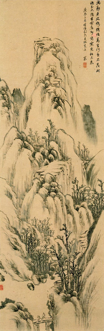 Wintry Trees ;hanging scroll,ink on paper 寒岩枯木図 紙本着色